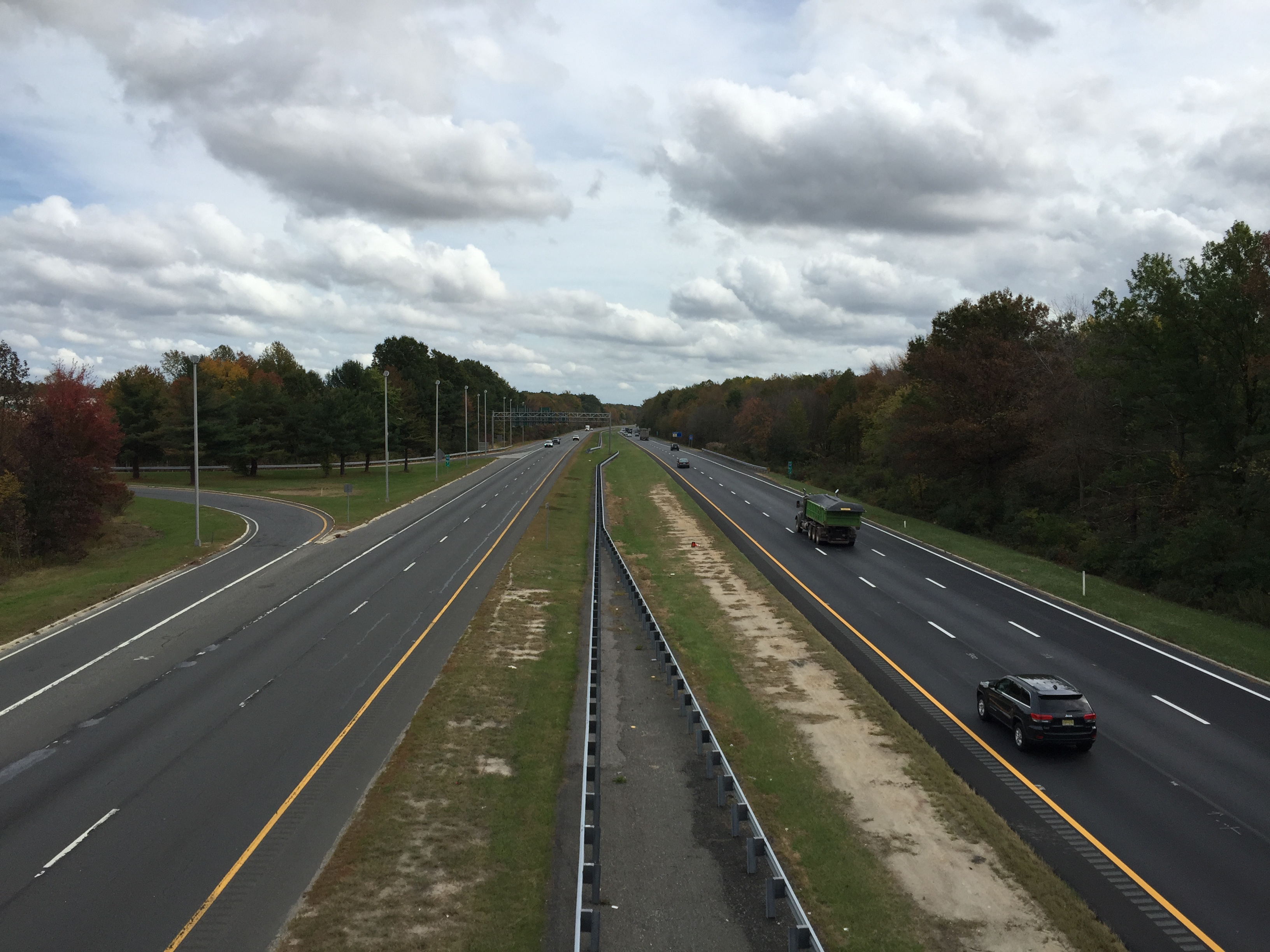 View east along Interstate 195 (Central Jersey Expressway) from the Robbinsville-Allentown Road (Mercer County Route 526) overpass in Robbinsville Township, Mercer County, New Jersey